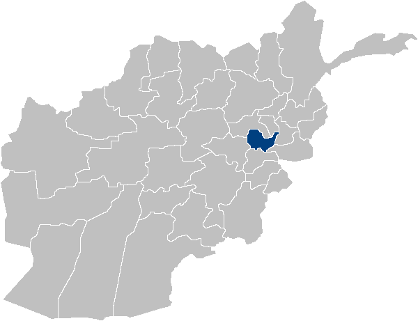 Location map for Kabul Province in Afghanistan. Original map source: Image:Afghanistan_provinces_blank.png